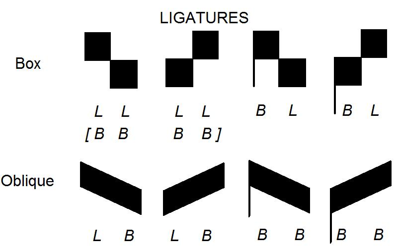 A descriptive diagram of ligatures as they pertain to music from the 13th to the 16th centuries AD.